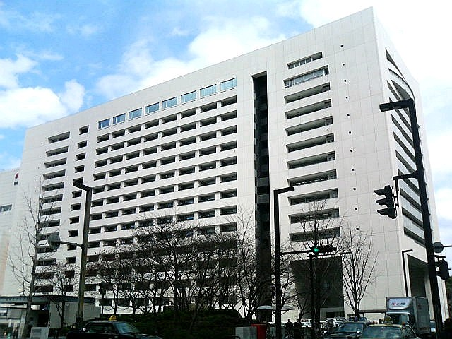 Fukuoka City Hall, Fukuoka Prefecture, Japan